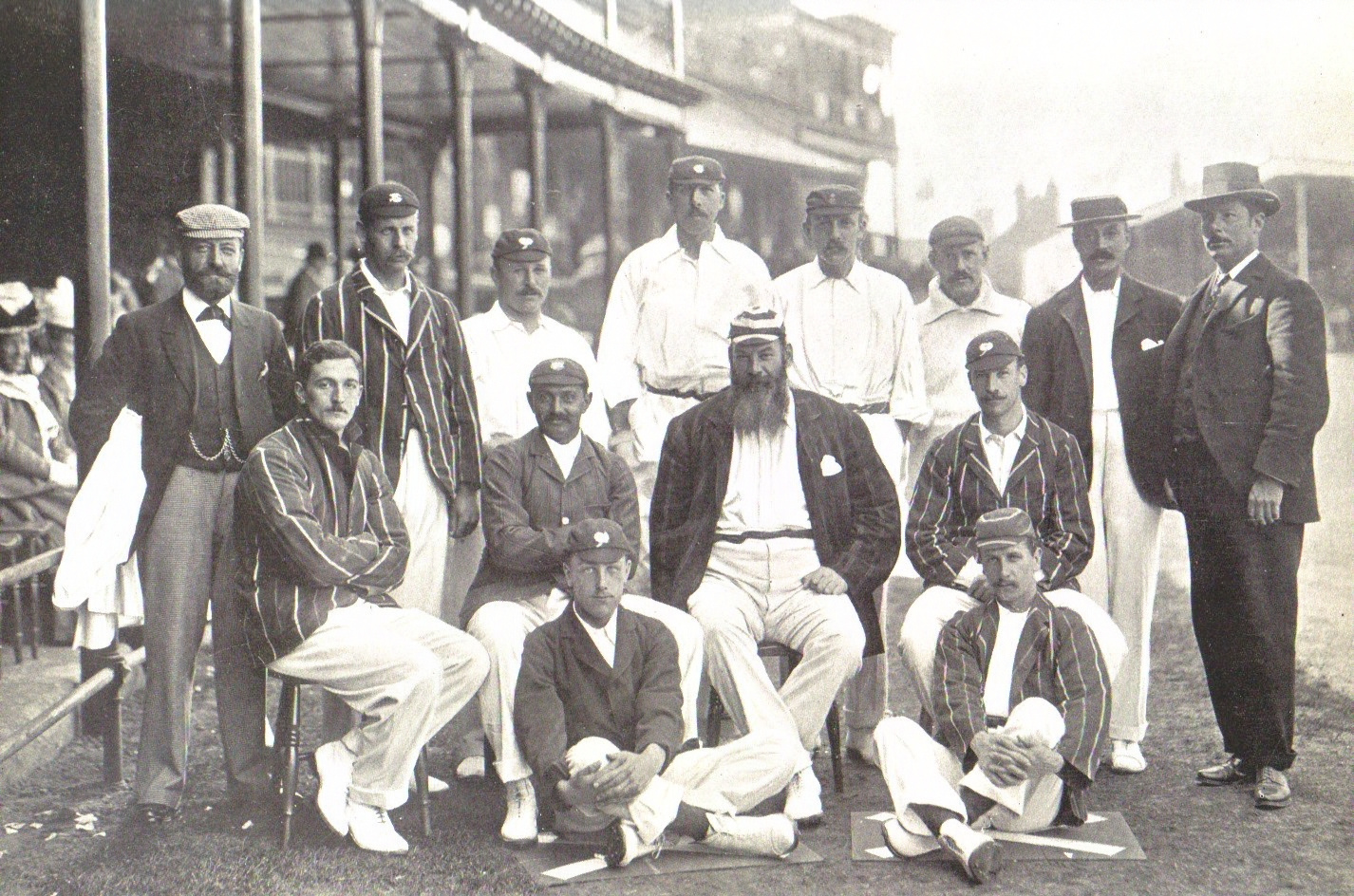 England cricket team at Trent Bridge 1899. Back row: Dick Barlow (umpire), Tom Hayward, George Hirst, Billy Gunn, J T Hearne (12th man), Bill Storer (wkt kpr), Bill Brockwell, V A Titchmarsh (umpire). Middle row: C B Fry, K S Ranjitsinhji, W G Grace (captain), Stanley Jackson. Front row: Wilfred Rhodes, Johnny Tyldesley. Source: Frith, David (1978) The Golden Age of Cricket 1890-1914, Lutterworth Press, p. 27 ISBN: 0-907853-50-1.